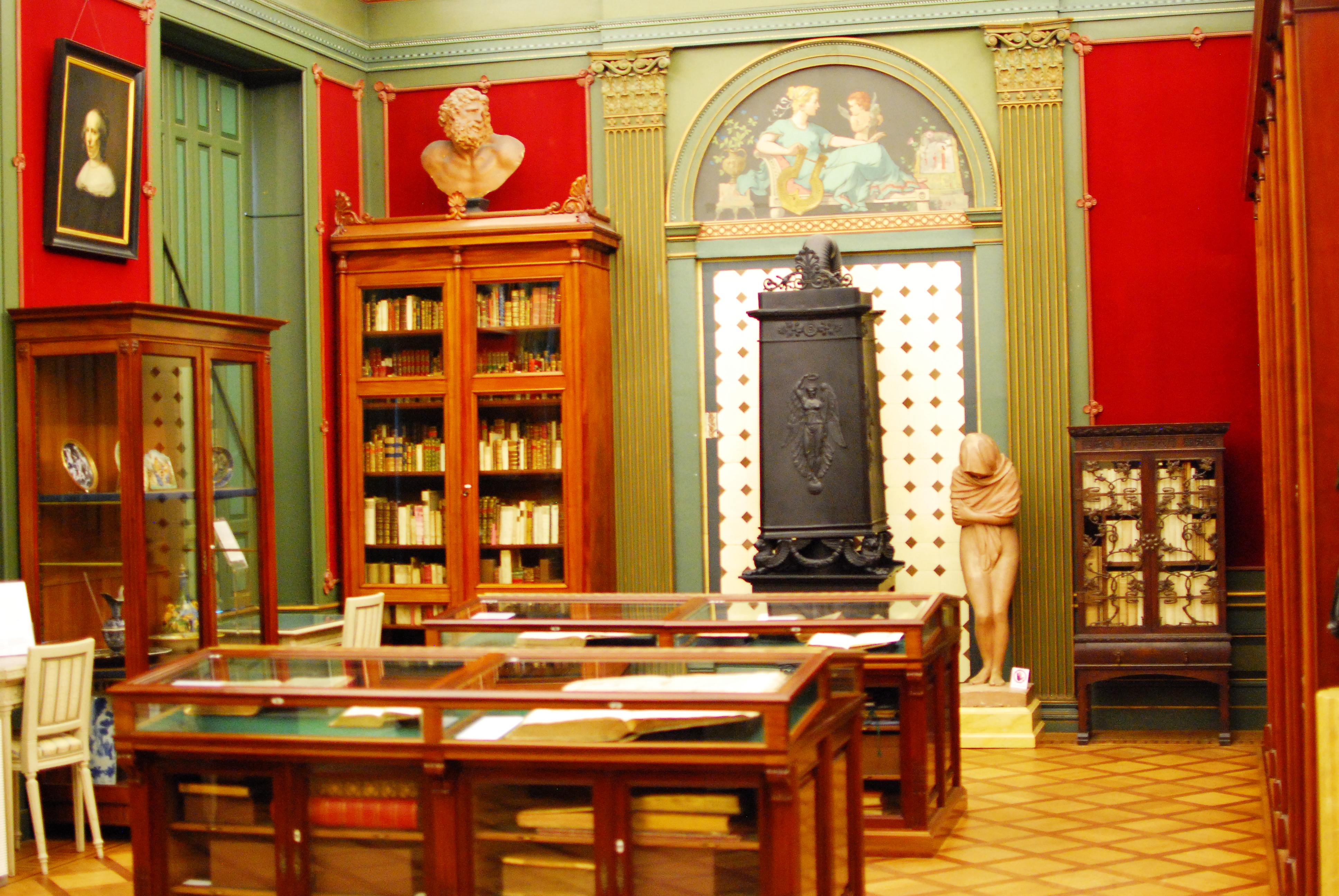 Library room of Museum Meermanno, Prinsessegracht 30, Den Haag.